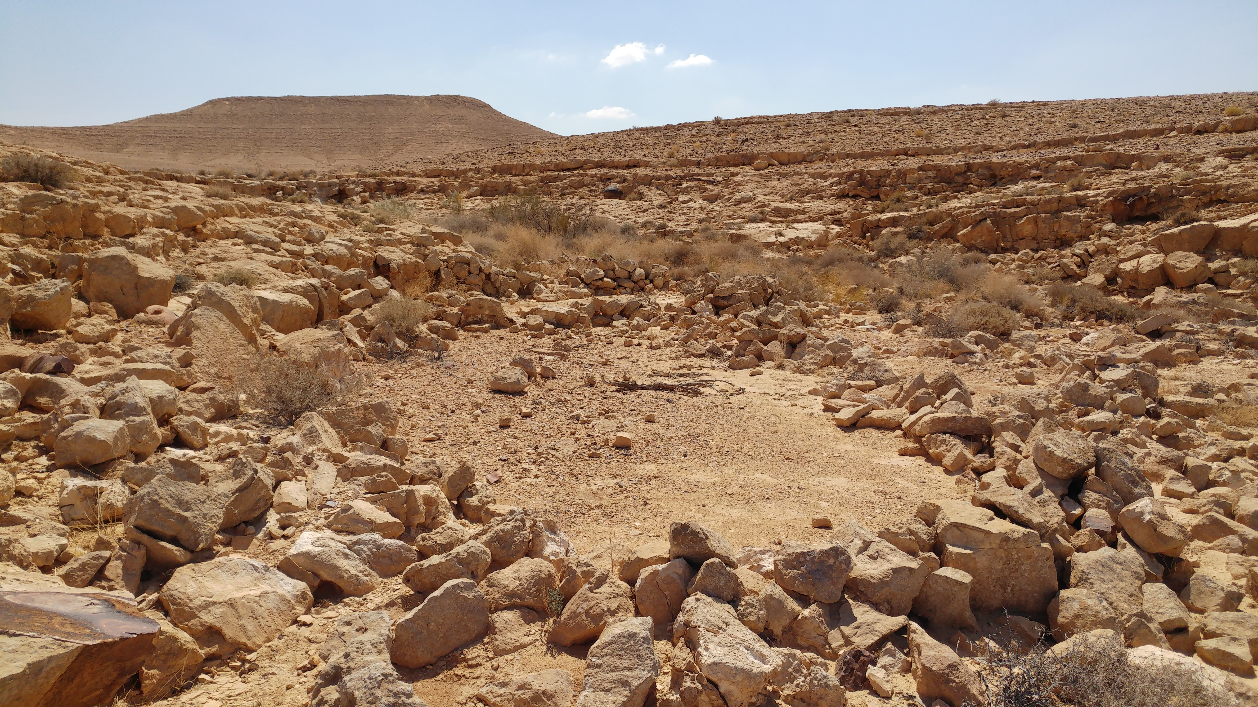 A Temple on Har Karkom ridge near the Karkom winterboure, Israel.